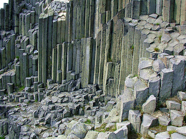 Basalt - self taken photo - public domain The location is so called Kamenné varhany (Rock organ) in small town of Kamenický Šenov in northern Bohemia (20 km E from Děčín or 10 km NW Česká Lípa). Miaow Miaow 15:36, 17 Mar 2005 (UTC)